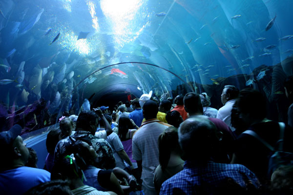 Tunnel to view whale shark exhibit at the Georgia Aquarium taken by JoAnn Labrador on June 23, 2007.